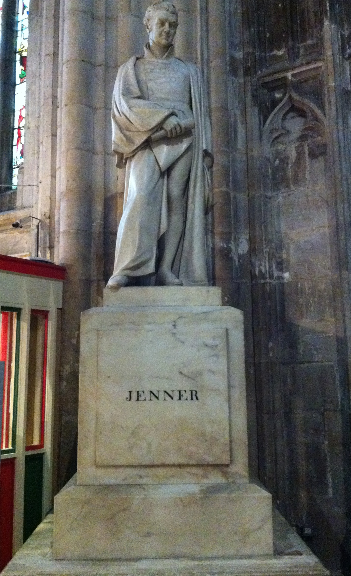 Memorial to Edward Jenner in Gloucester Cathedral